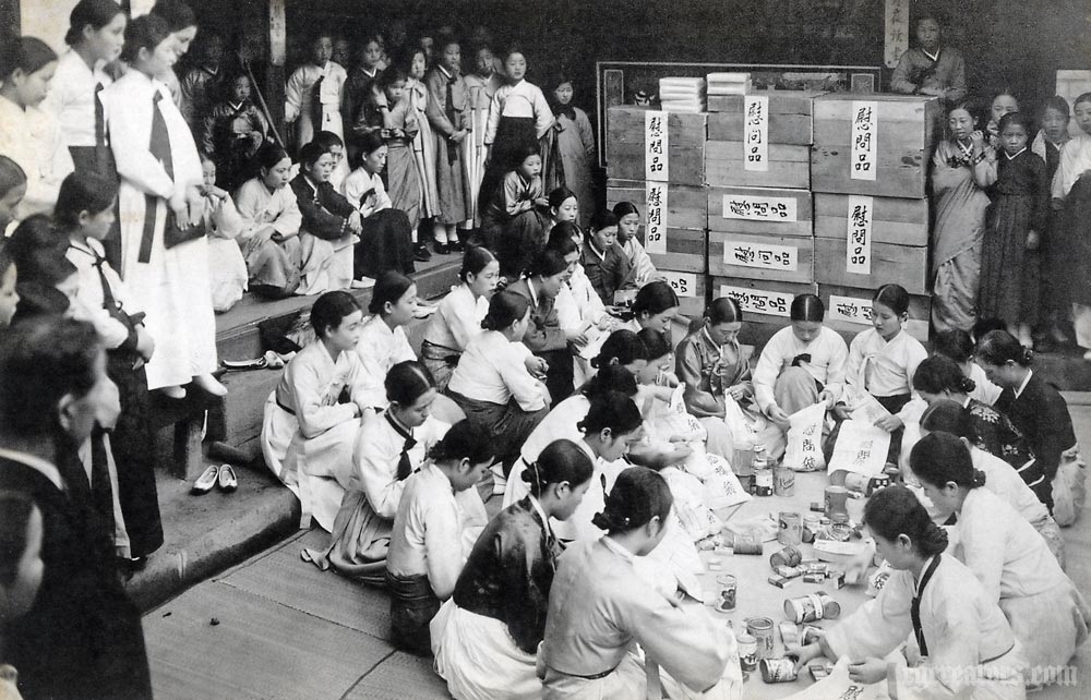 Korean women are putting comfort articles (慰問品) such as canned food into Comfort bag.